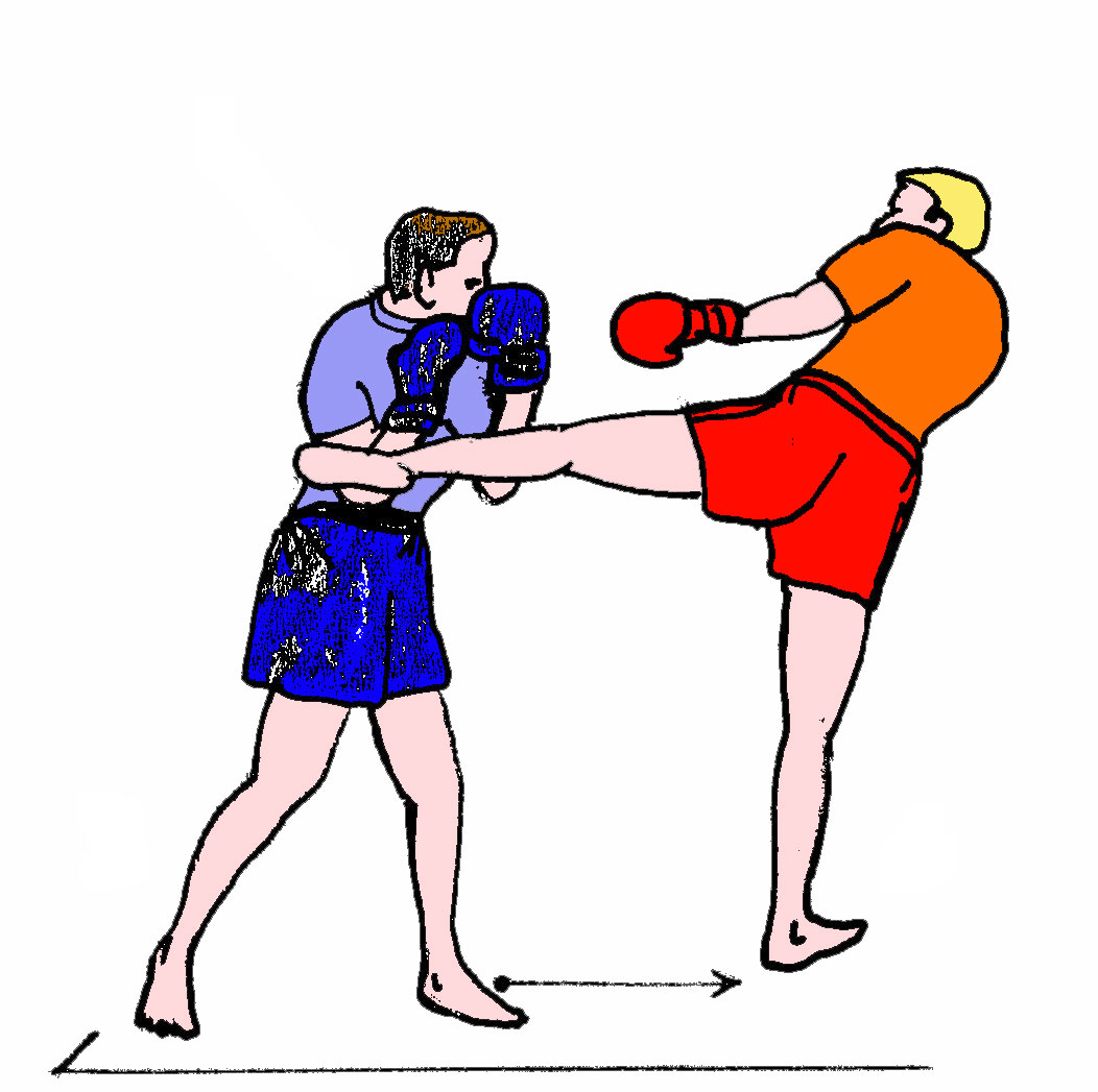 Blocking